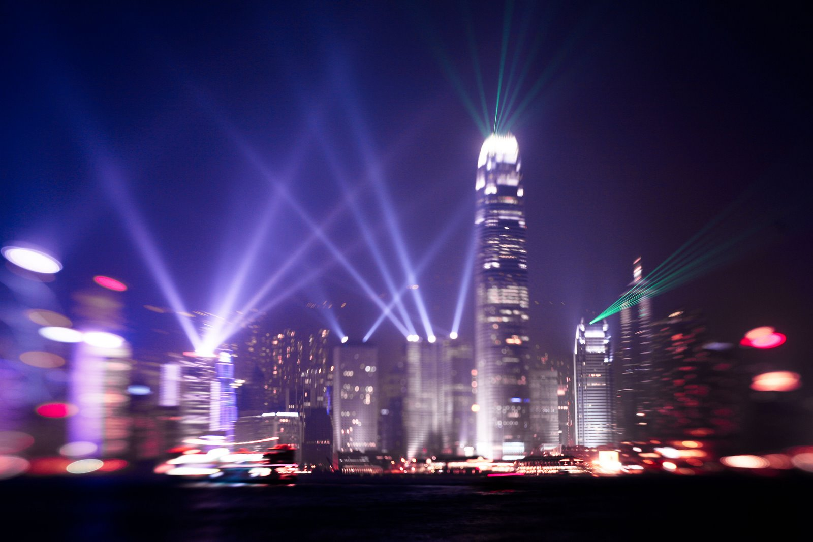 Hong Kong Symphony of Lights laser show